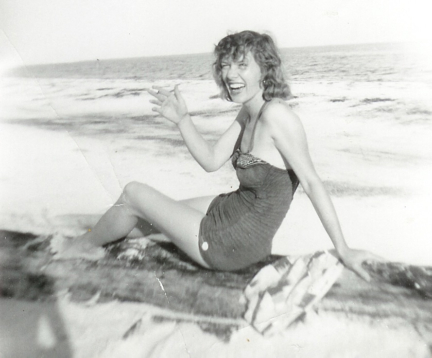 Gloria Carter Spann Gloria Carter Spann at Panama City Florida late 1950's.